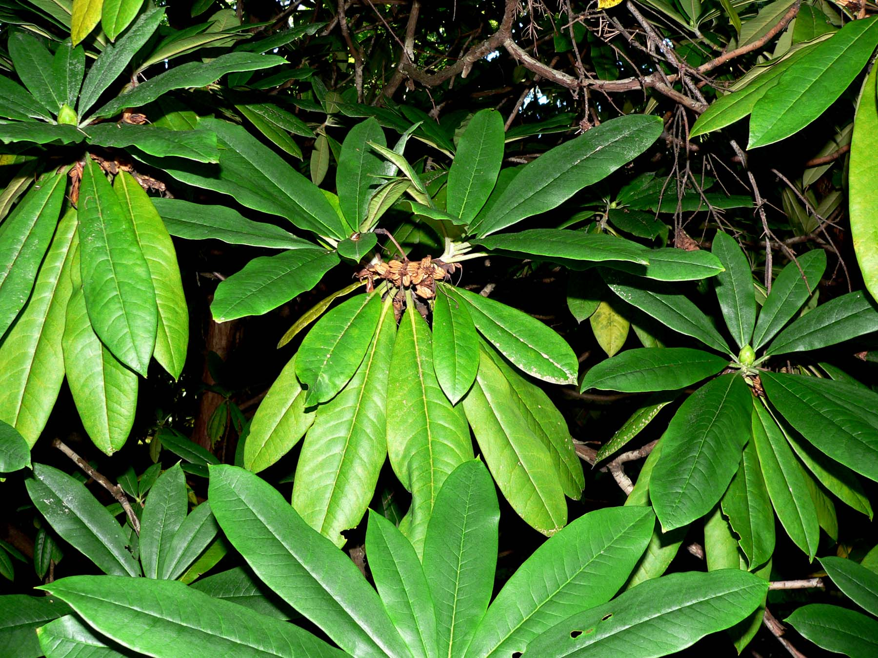 Photo of Rhododendron calophytum at VanDusen Botanical Garden